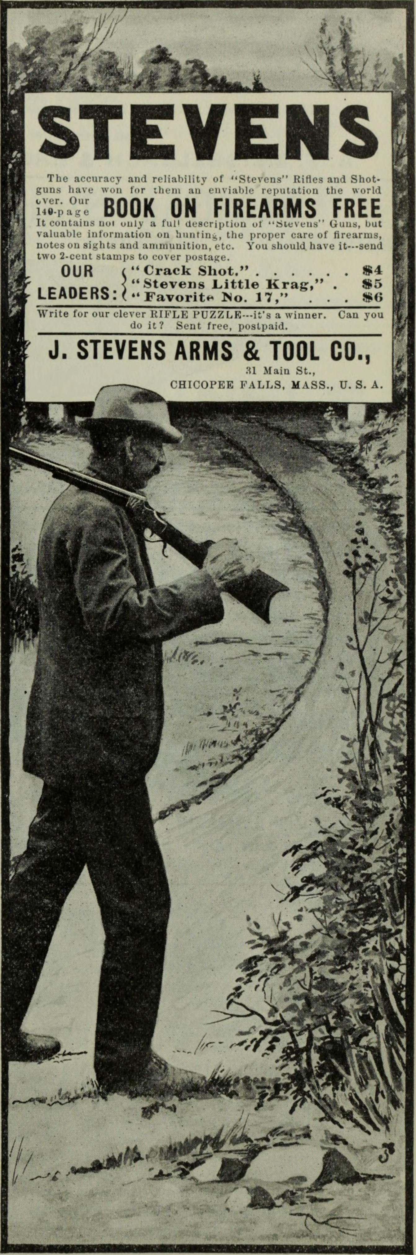 Title: Western field Year: 1902 (1900s) Authors: Olympic Club (San Francisco, Calif.) California Game and Fish Protective Associations Subjects: Olympic Club (San Francisco, Calif.) California Game and Fish Protectice Associations Sports Publisher: San Francisco Text Appearing Before Image: cellent Ie-sults in any arm taking the .22 long rifle car-tridge. * * * A SPLENDID DENTRIFICE. Among all the toilet preparations that sciencehas conferred on us, few have met at first in-troduction with the immediate and flatteringsuccess which has attended the first offering of Borodont. the new tooth paste just intro-duced by the Troy Pharmacal Co. of San Fran-cisco. This elegant dentrifice is made by rein-forcing the Milk of Magnesia with Carbonateof Magnesia and a small amount of PrecipitatedChalk, adding to them Menthol and aromaticantiseptic oils. The alkaline base neutralizesthe acidity which often develops where cariousconditions exist, the anaesthetic action of men-thol and oil of cloves allays pain and their anti-septic action in conjunction with the neutraliz-ing and cleansing action of magnesia destroysall foreign matter. The preparation we believeIs scientifically correct, is put up in very chasteand attractive form and will meet with the ap-proval of the most fastidious. Text Appearing After Image: XXXIII WESTERN FIELD ti Never Leak One Drop on Can ^(jiifi \I0 As its name indicates, gives one drop only, and just wherewanted Will not leak. No waste and no wiping off super-auous o;l. Can be carried in pocket or case without soiling otherarticles. Just the thing for clock machinery, music boxes,phonographs, typewriters, sewing machines, fishing reels, guns, etc. The only proper method of oiling fine mechanism. Like a fouaiaia pea; 3^2 inches long by % inch diameter. From your Dealer at 10c each ; by mail 15c each. A. F. MEISSELBACH &, BRO., Wfrs., H Prospect St., NEWARK, N.J. Mullins Stamped Steel Boats MOTOR BOATS AUTO BOATS ROW BOATS HUNTING AND FISHING BOATS